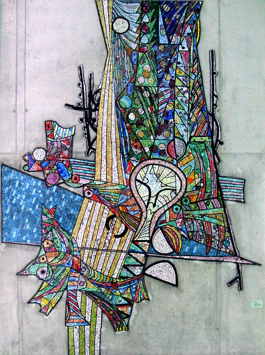 Glass mosaic, created for the XI Milan Triennale of 1957, later purchased for the assembly hall of the primary school at St. Catherine’s Church